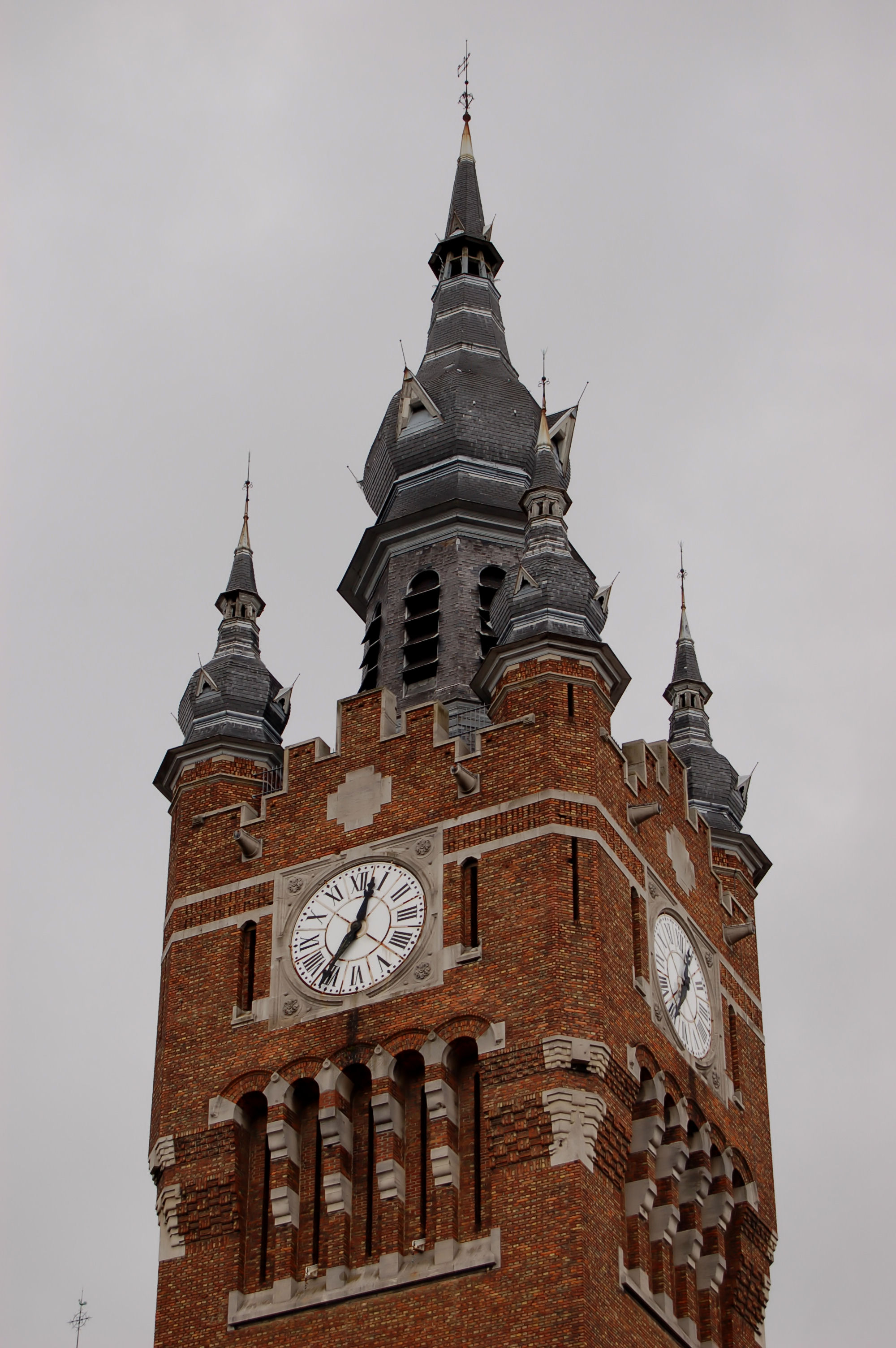 Town Hall and belfry of Armentières (Nord, France).